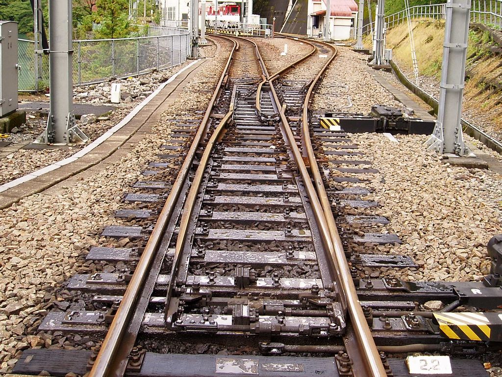 Divergence machine in Abt type section at Abt Ichishiro station of Oikawa Railways. The rail in the center orbital part is a movability type because it avoids interference with the cogwheel on the vehicle side.